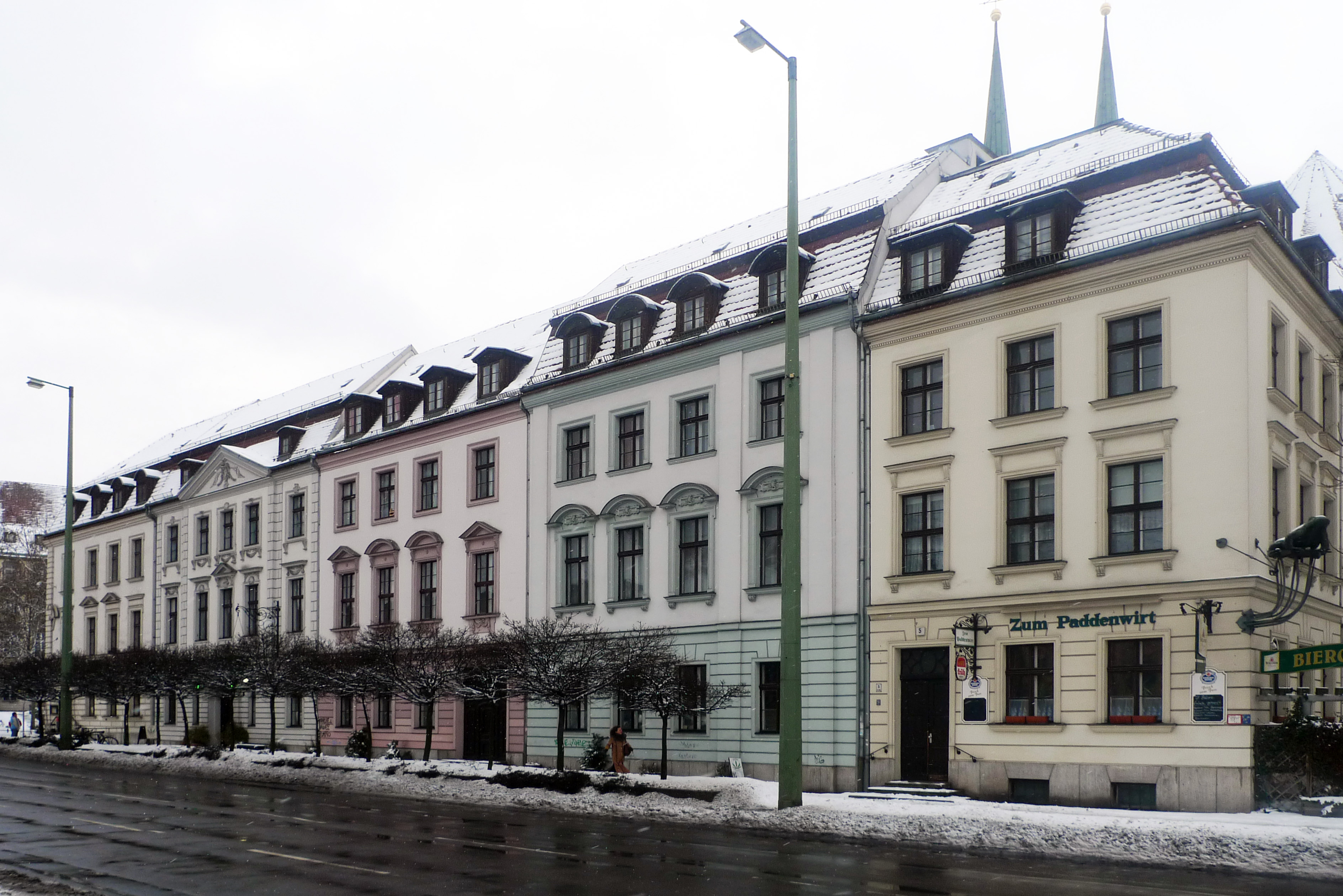 Townhouses at Molken Market in Berlin-Mitte